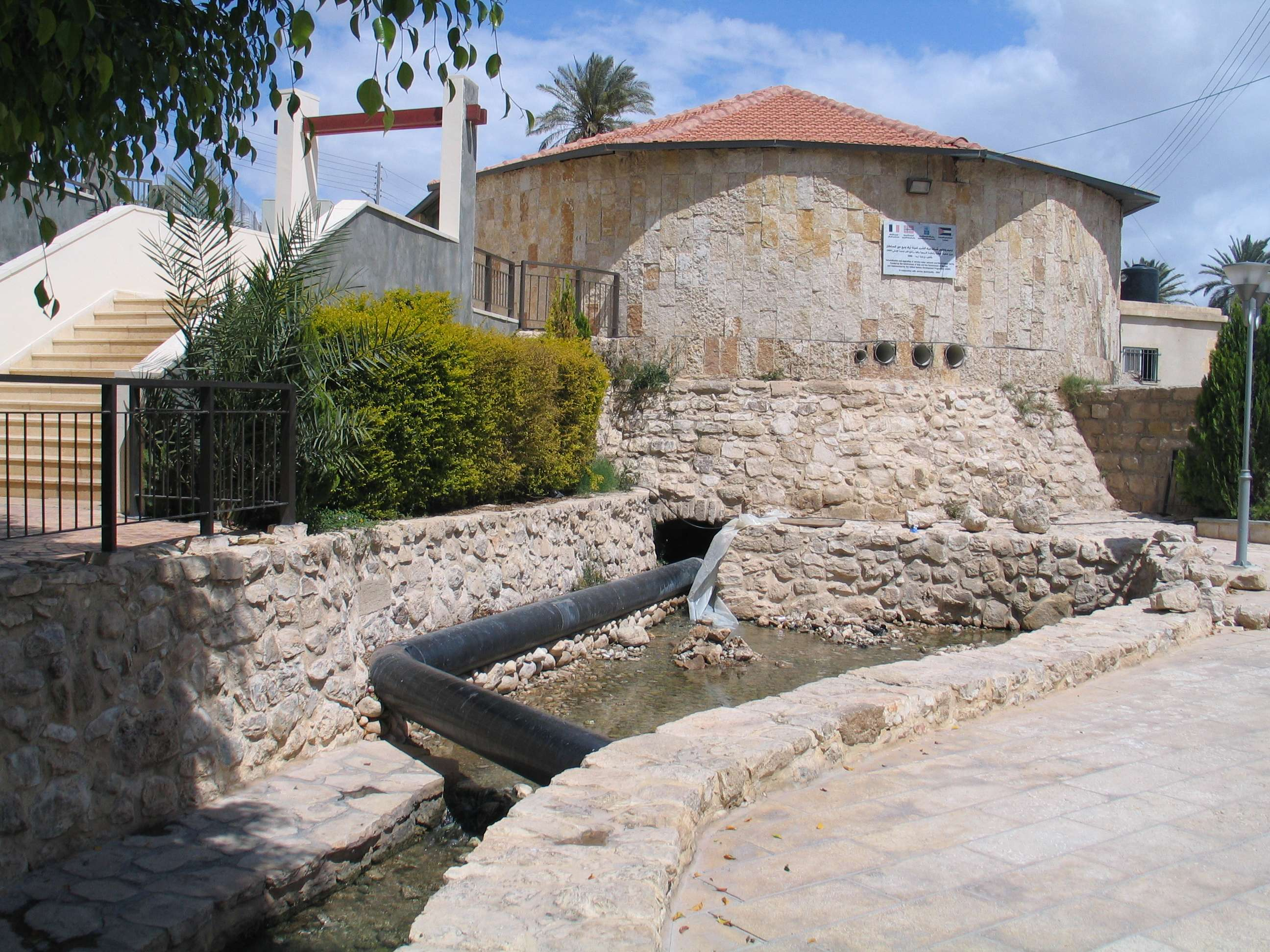 Ain as-Sultan (Elisha's stream) in Jericho.